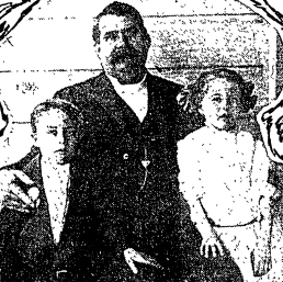 Bernard Healy, Los Angeles City Councilman, and his twins, 1907